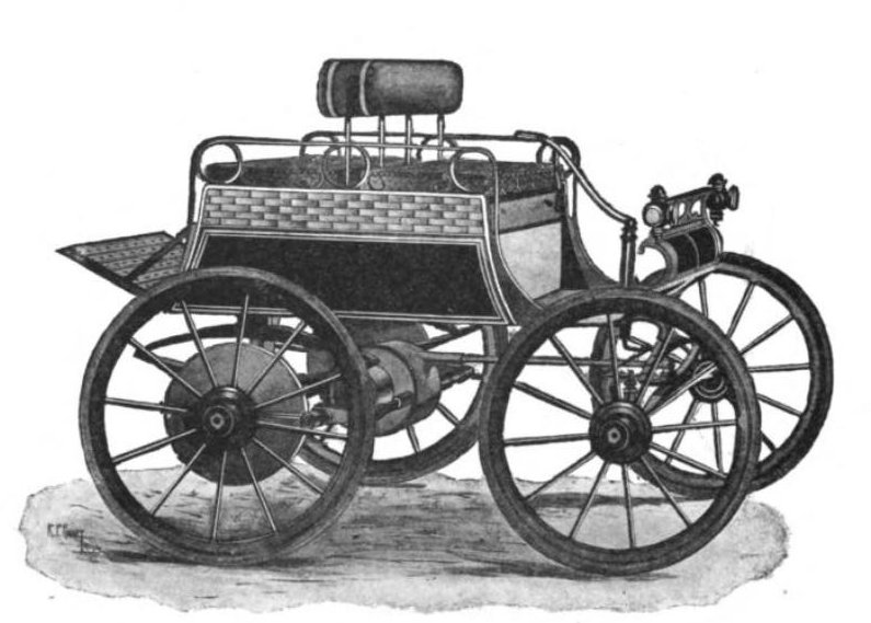 Image is of the American Electric Dos-a-Dos model automobile from page 322 of the book. From the Google Books archive: Title Horseless vehicles, automobiles, motor cycles operated by steam, hydro-carbon, electric and pneumatic motors: a practical treatise for ... everyone interested in the development, use and care of the automobile, including a special chapter on how to build an electric cab, with detail drawings Author Gardner Dexter Hiscox Publisher N. W. Henley & co., 1900 Original from the University of Michigan Digitized May 13, 2009 Length 459 pages